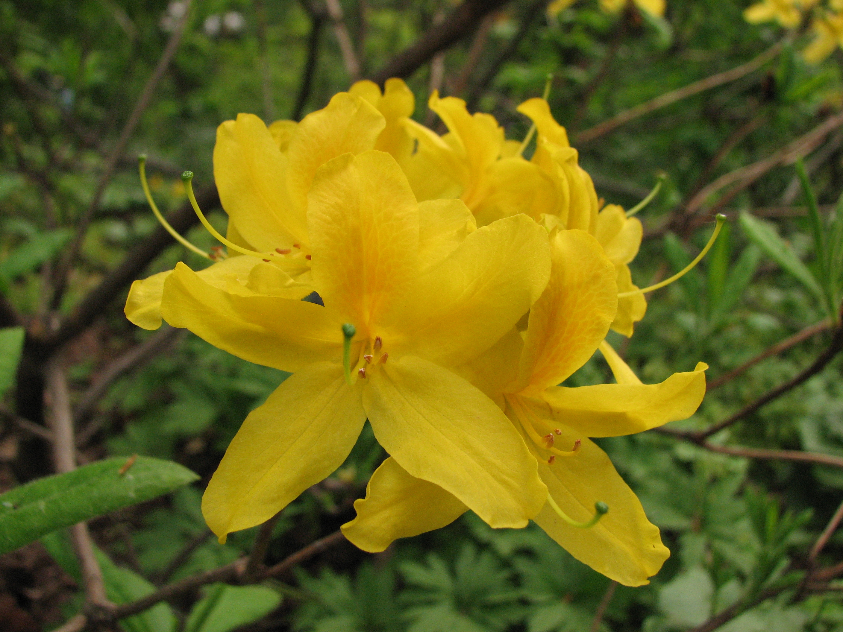 Rhododendron luteum in the botanical garden "Aptekarsky Ogorod'. Moscow.